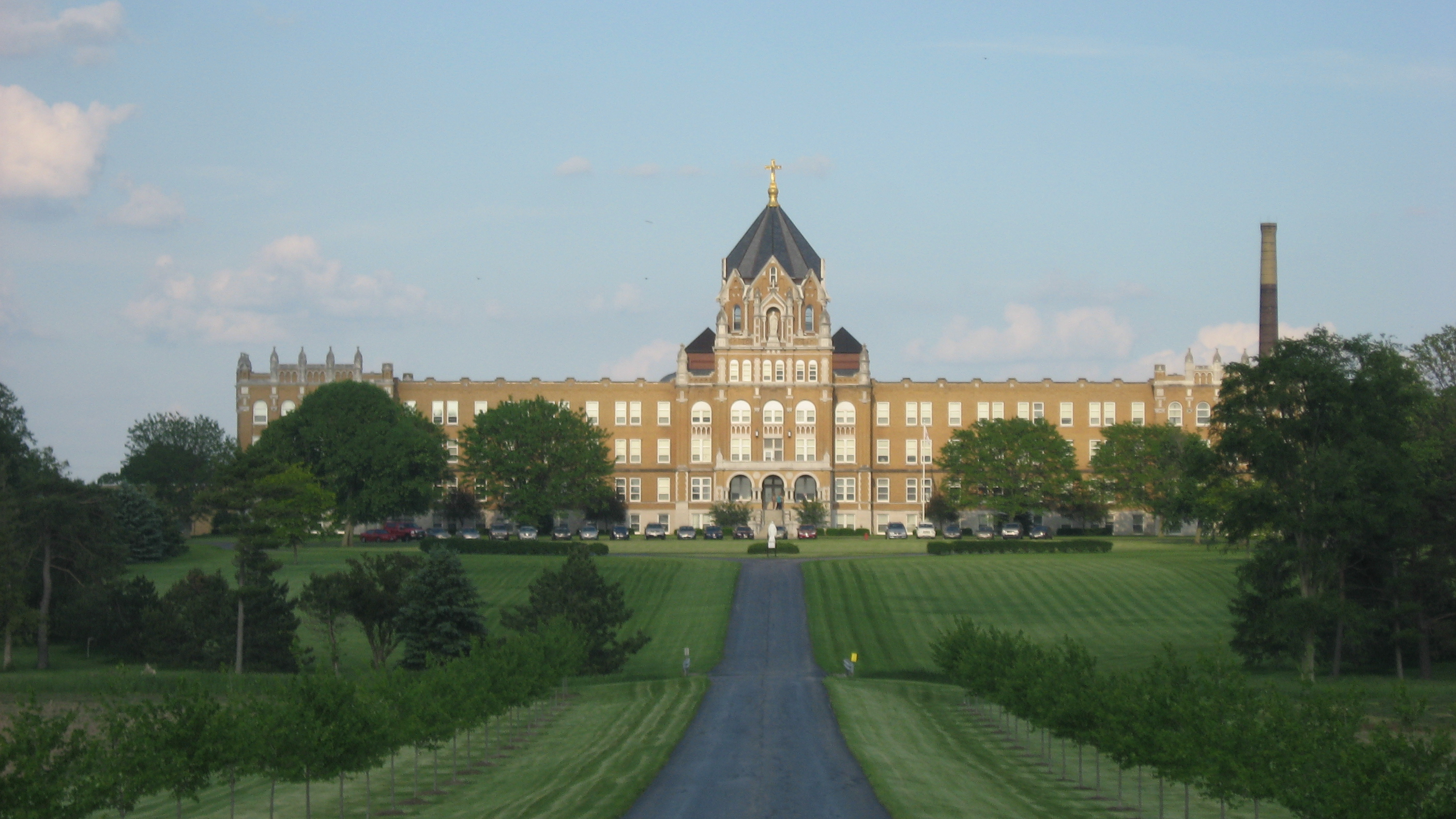 Driveway view of the former St. Charles Borromeo Seminary, located along U.S. Route 127 at Carthagena, an unincorporated community in Marion Township, Mercer County, Ohio, United States. Built in 1906 and since converted to a retirement home, the seminary complex has been added to the National Register of Historic Places as a part of the Cross-Tipped Churches of Ohio Thematic Resources.